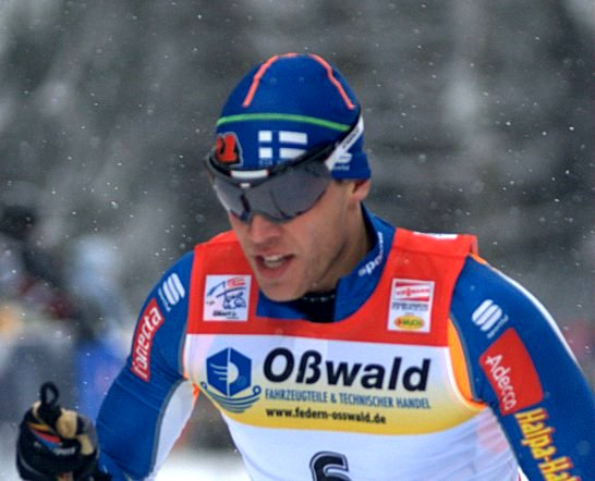 Kalle Lassila at the Tour de Ski 2010 in Oberhof